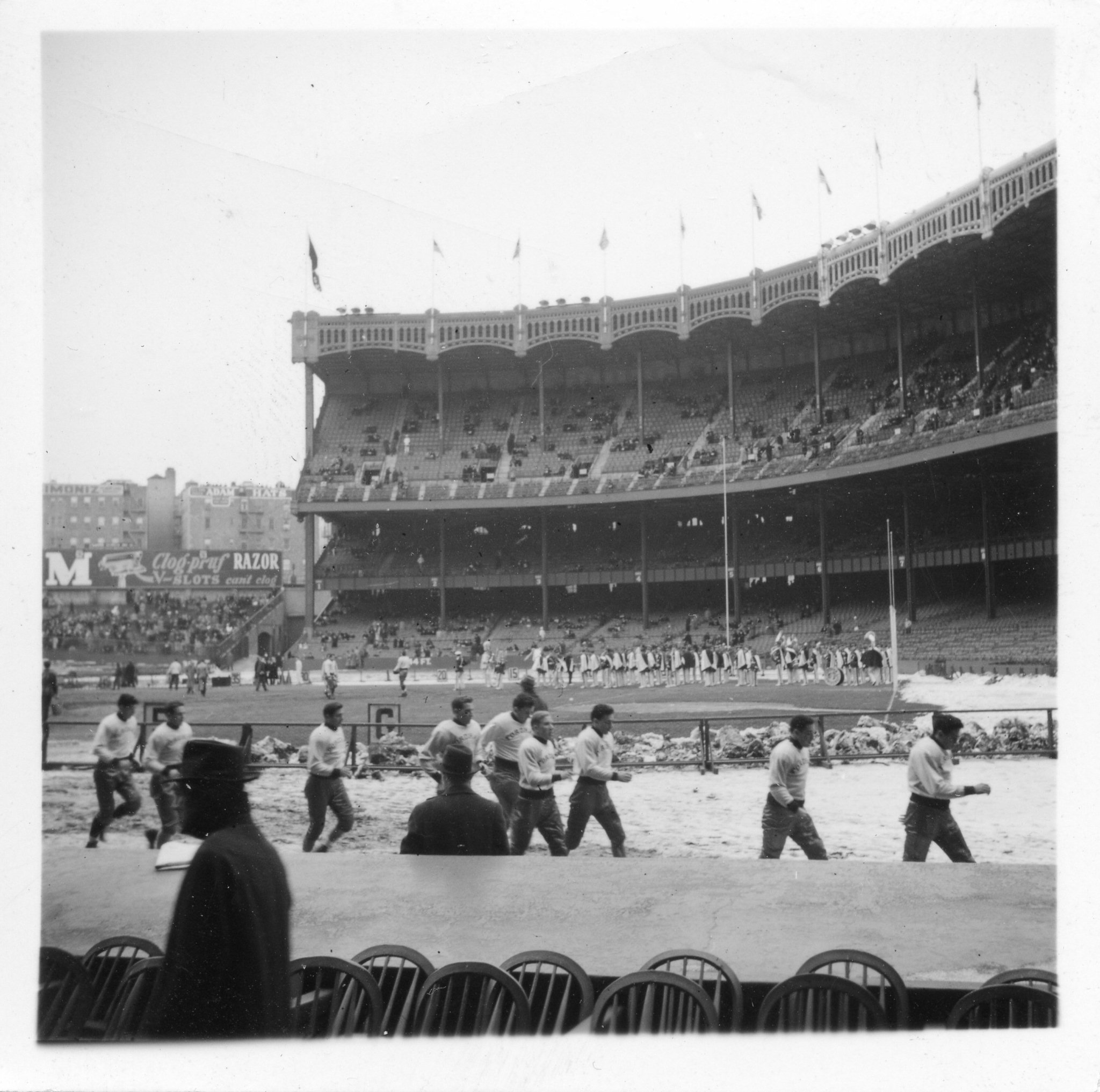 @emstc has corrected me -- this is 1940, not 1936. The rebuilt upper deck shows that it's not 1936, and the ad on the outfield wall shows that it is in fact 1940. So the game is 11/30/1940, still Fordham vs. NYU. It's a better world because their are fanatics of Yankee history. Here is a view back from the buildings in the distance (836 Gerard St, NY, still standing) in 1936. A crowd of 50,000 gathers to watch Fordham University lose to NYU 6-7 on Thanksgiving Day, November 28, 1936 in Yankee Stadium. The marching band is getting ready and the Rams' Seven Blocks of Granite are still in their wool sweaters on this grey day. Snow is on the ground, and snow fell lightly during the game. Kickoff was 1:30pm, so this is closer to 1. I believe Vince Lombardi is the man to the right of the "G" marker. Can anyone name the Fordham players? This unlabeled, undated, unmarked photo was in a Seattle, WA antique store's bargain bin.